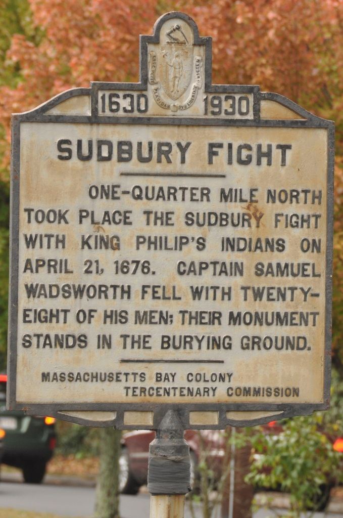 Marker commemorating the Attack on Sudbury, Massachusetts, during King Philip's War.